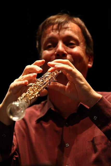 Jean-Luc Fillon à Mondeville 2011